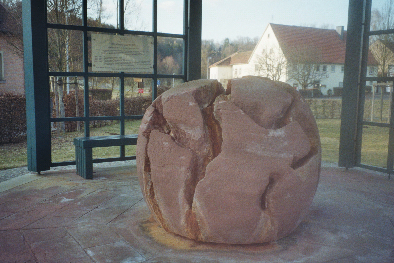 Pavilion in Hausen, a quarter of the German spa town of Bad Kissingen (Lower Franconia, Bavaria).